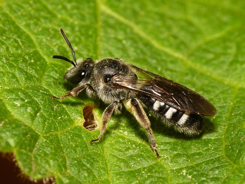 Lasioglossum sexnotatum, female. Location: Rhenen - Blauwe Kamer - Gelderland (The Netherlands)